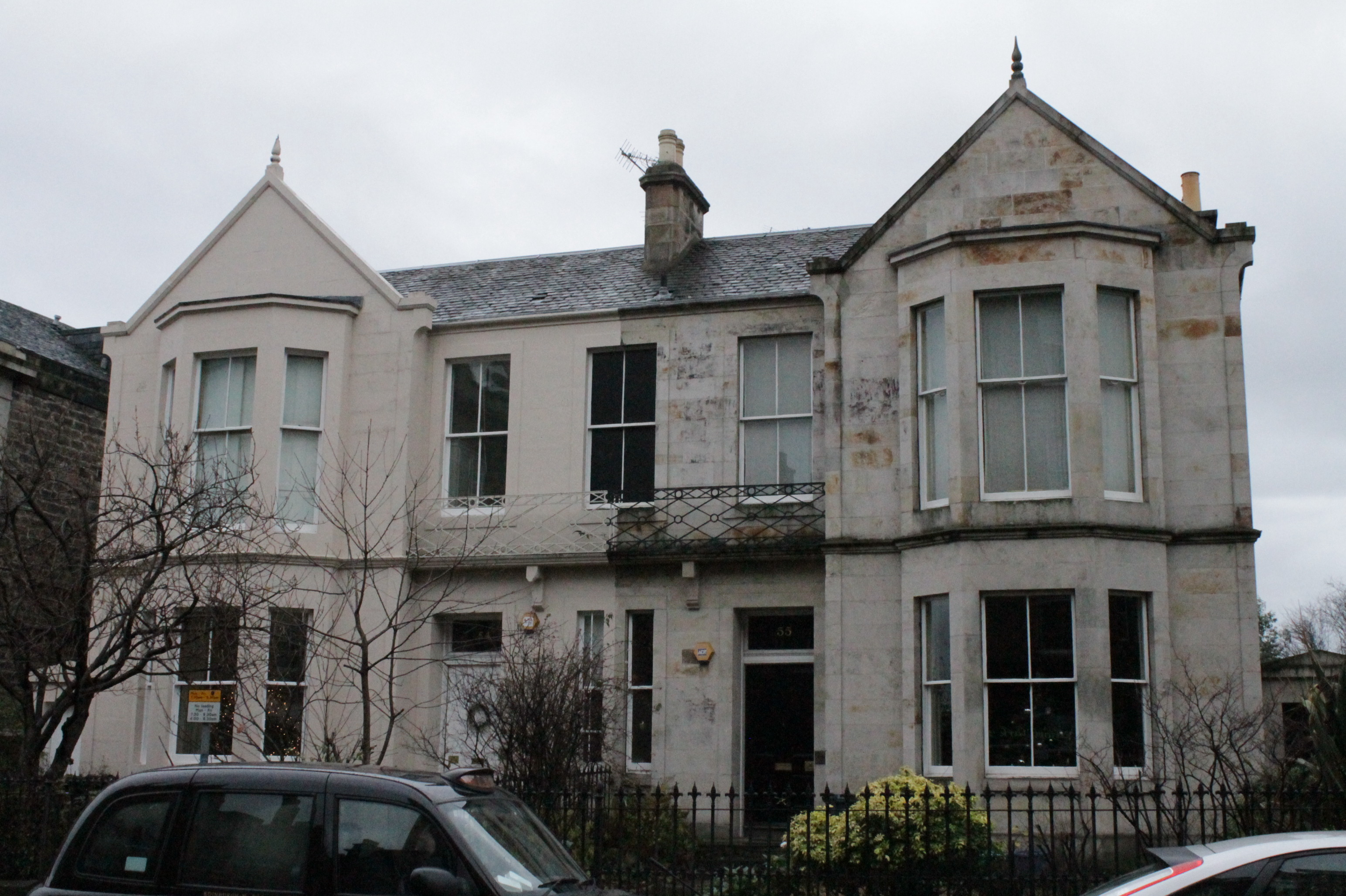 54,55 Inverleith Row, Edinburgh